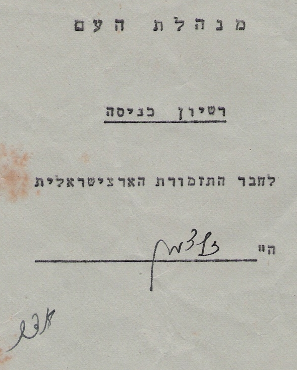 Lucien Salzman permit 14_05_1948